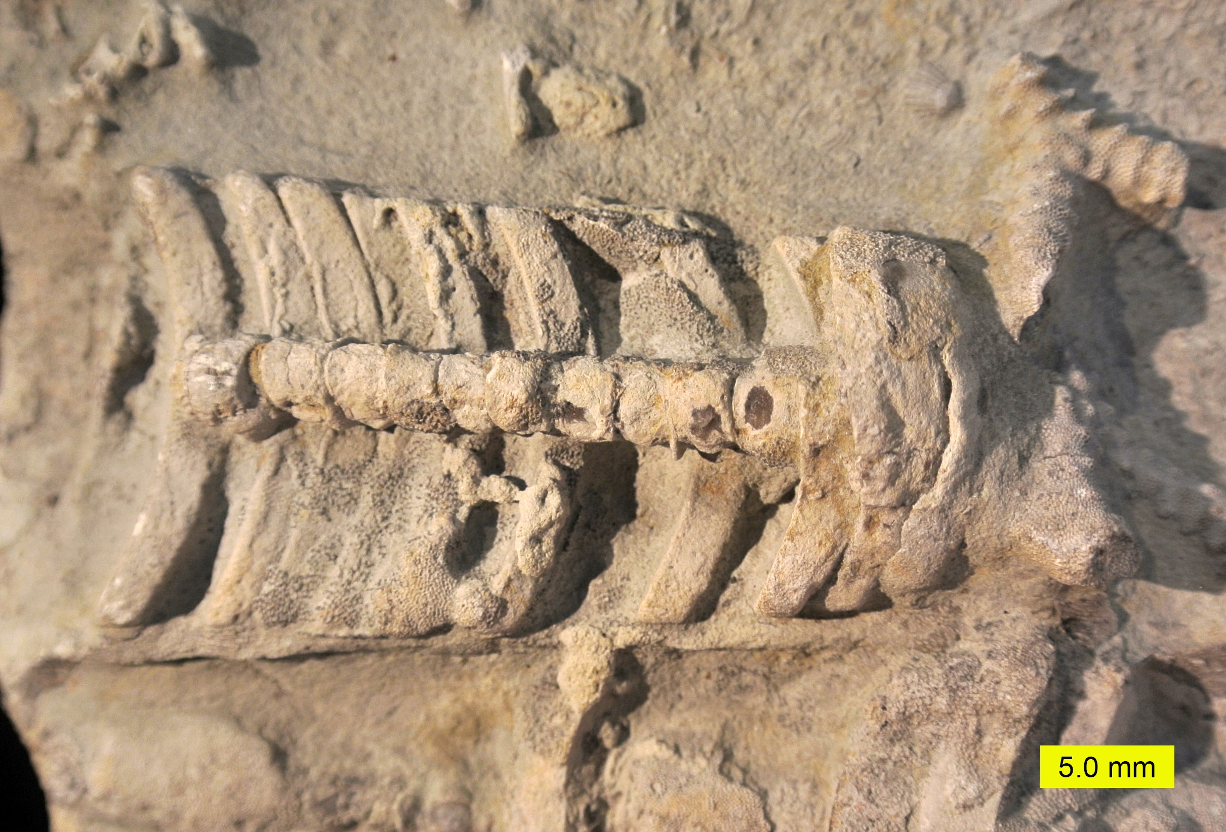 Internal mold of a nautiloid from the Upper Ordovician of northern Kentucky. Note the encruster over the mold.